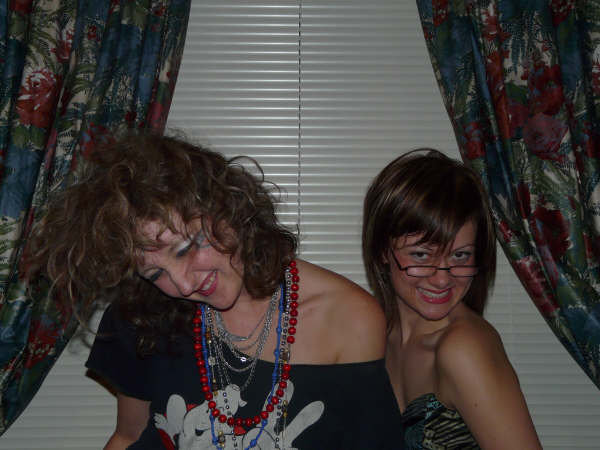 Picture of The Cloud Girls